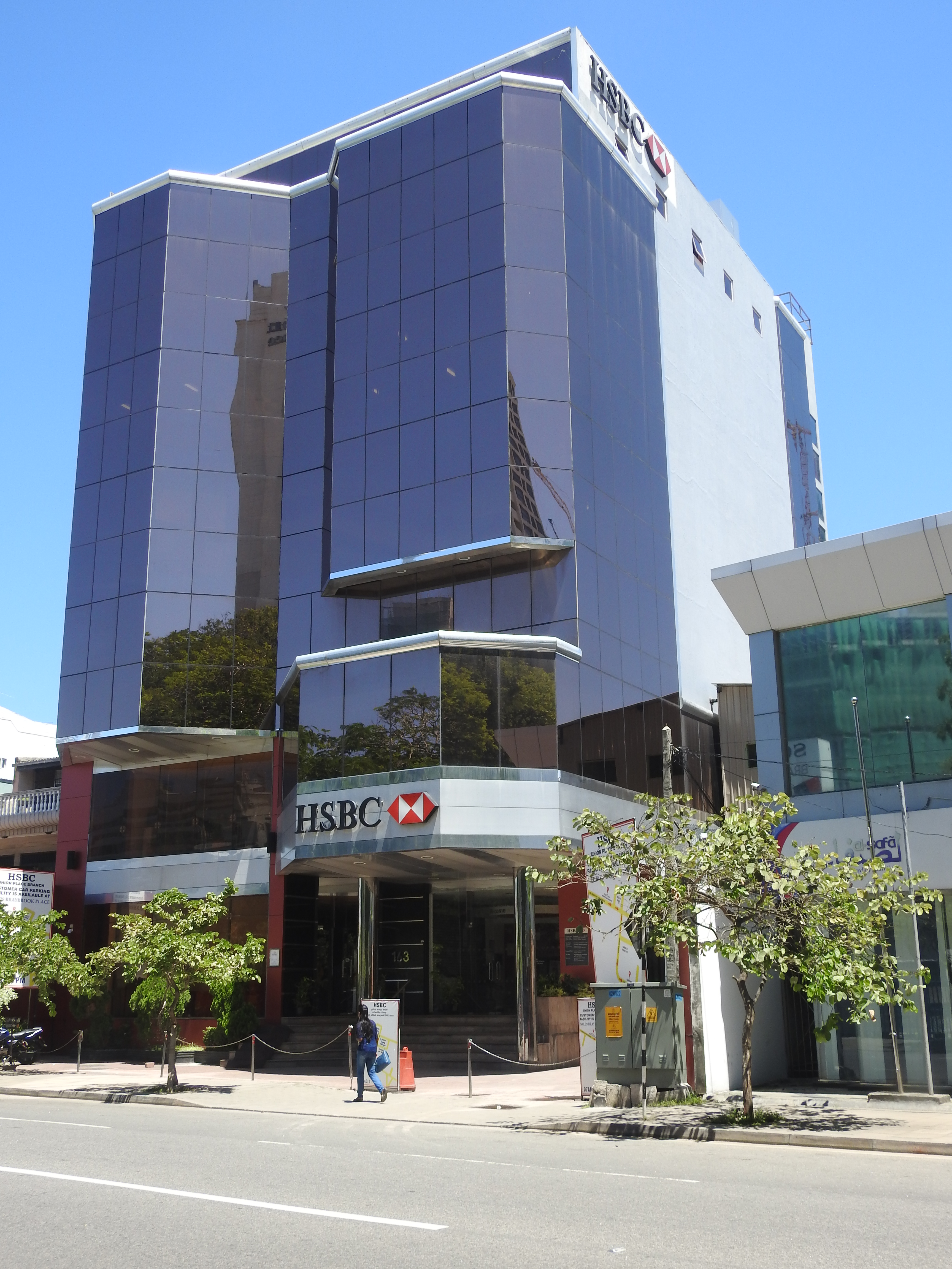 Photos of current/future skyscrapers (and its surroundings) in Colombo, taken by User:Rehman and User:Azeez as part of a photowalk project by Wikimedia Community User Group Sri Lanka. The photowalk covered most of the tallest structures in Colombo that are either completed or under construction. Further information on the subject(s) of the photograph can be found in the category/ies of this file.